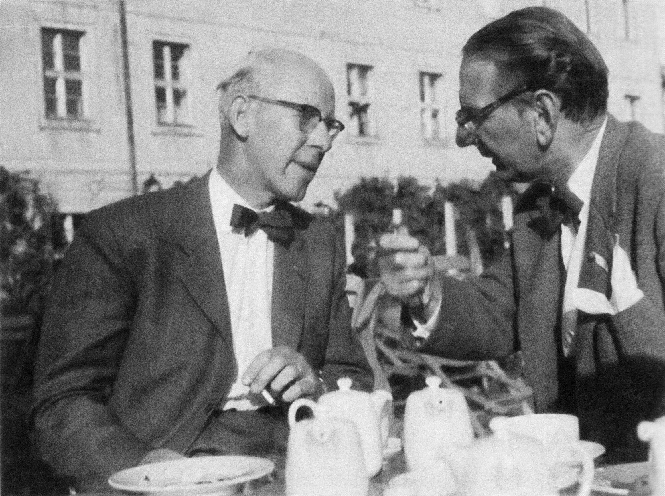 Anders Nordberg and Yngve Larsson on a study trip to dwelling building projects in Berlin in the 1950s